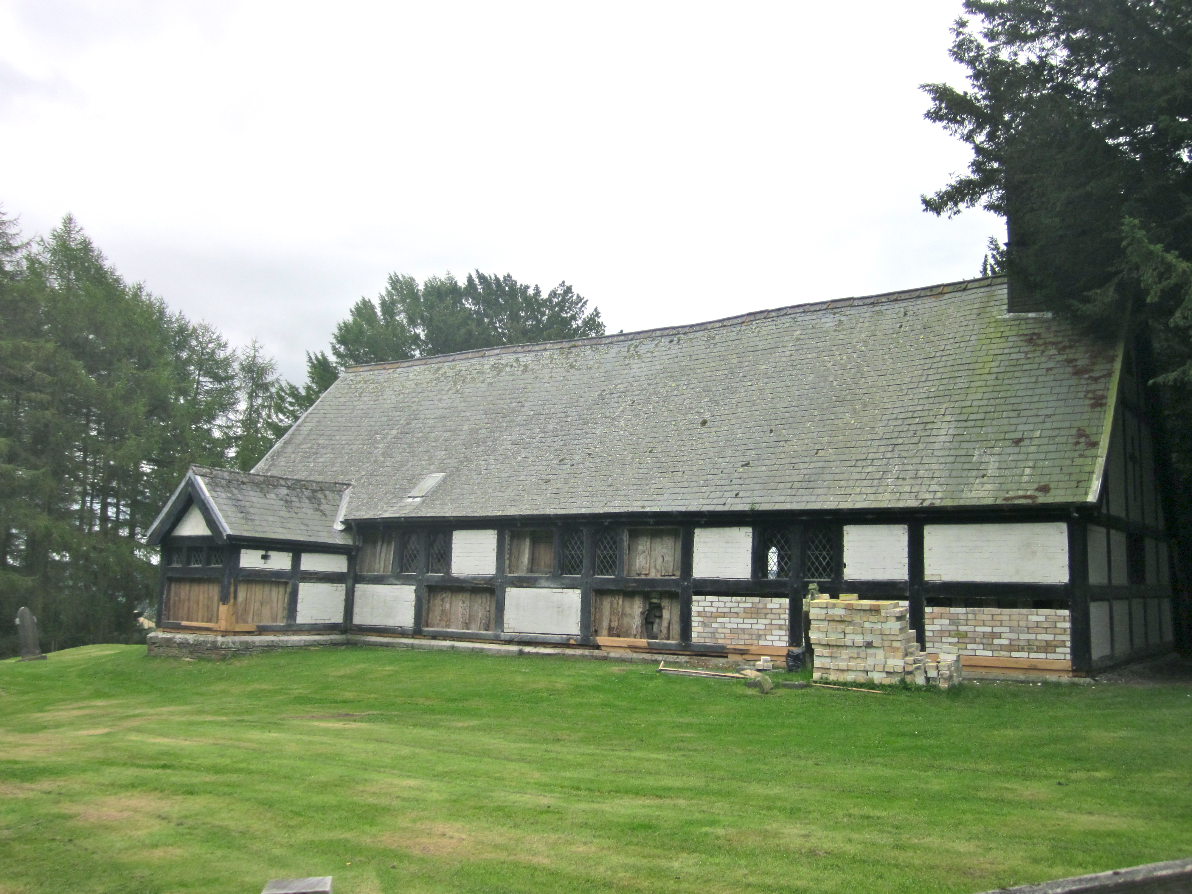 The timber framed church at Trelystan, Montgomeryshire. North side showing restoration work in Sept 2014.